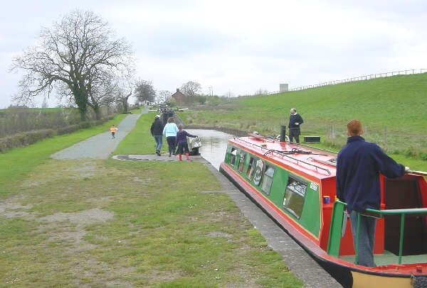 Hurleston Locks, Llangollen Canal. Hurleston Locks are at the eastern end of the Llangollen Canal, at the junction with the Shropshire Union Canal. Water from the River Dee above Llangollen flows down the canal to feed Hurleston Reservoir, which is behind the embankment on the right.